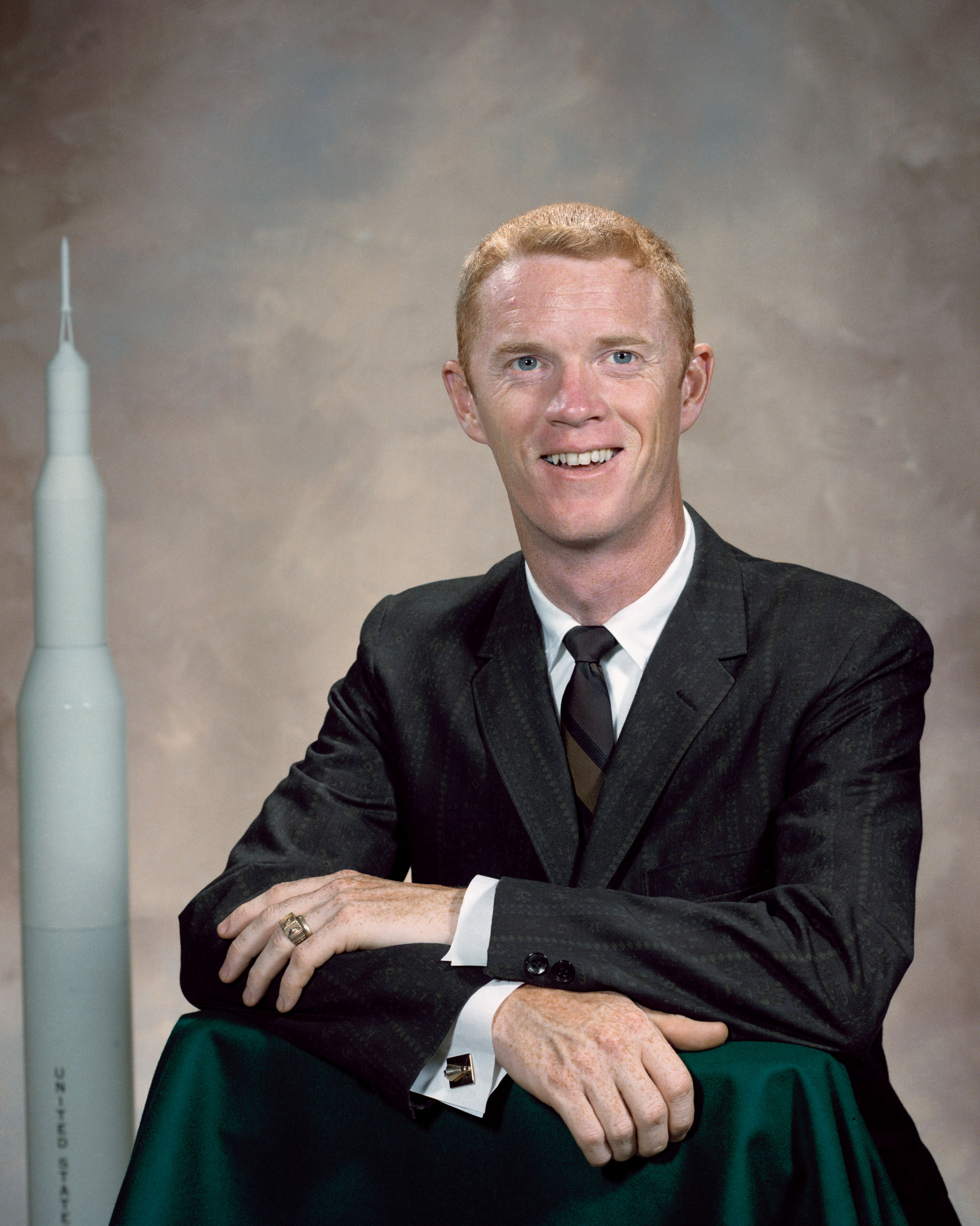 Portrait of astronaut Russell L. "Rusty" Schweickart.